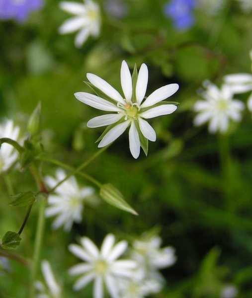 Lesser Stitchwort at Great Holland Pits, Essex